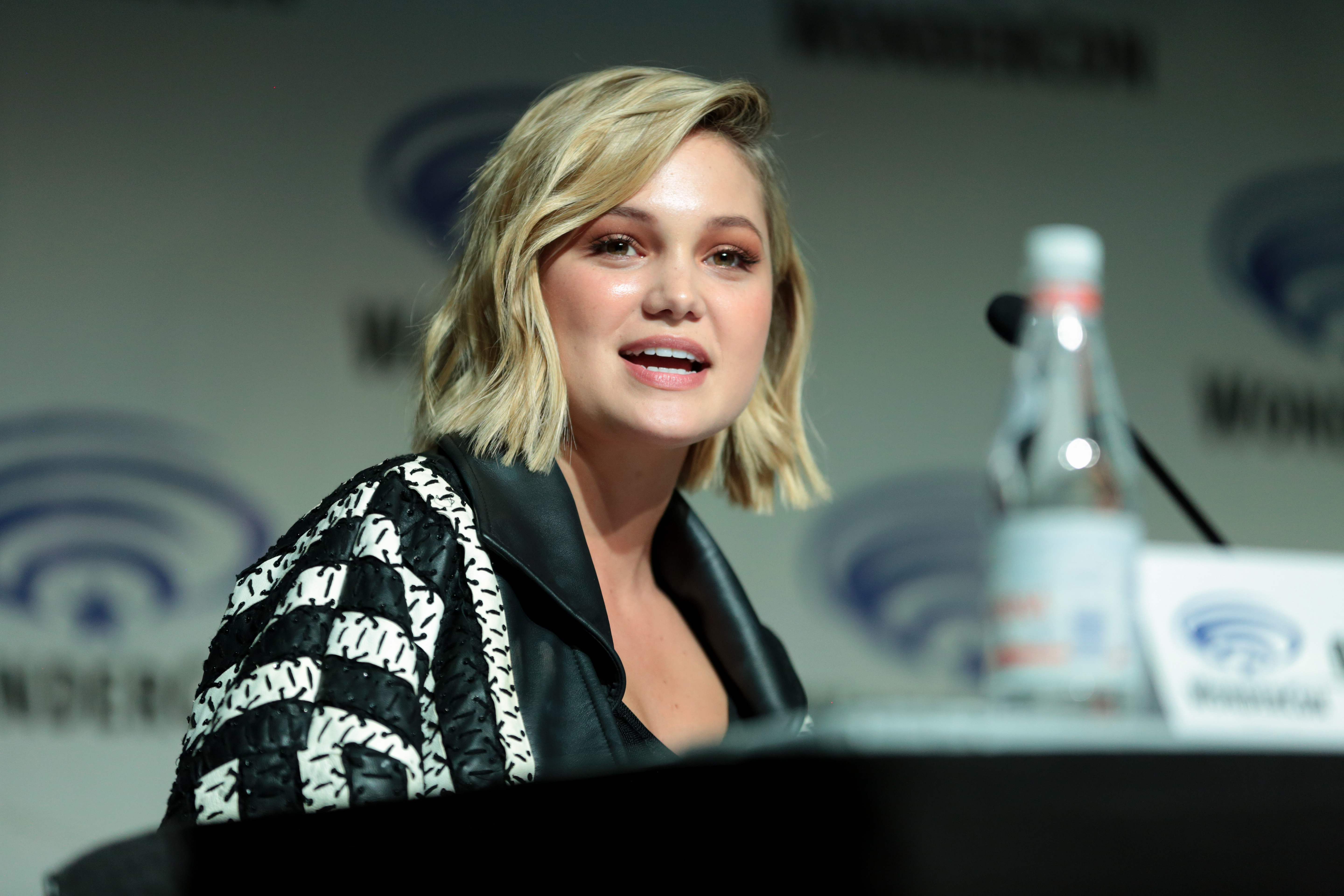 Olivia Holt speaking at the 2018 WonderCon, for "Cloak & Dagger", at the Anaheim Convention Center in Anaheim, California.